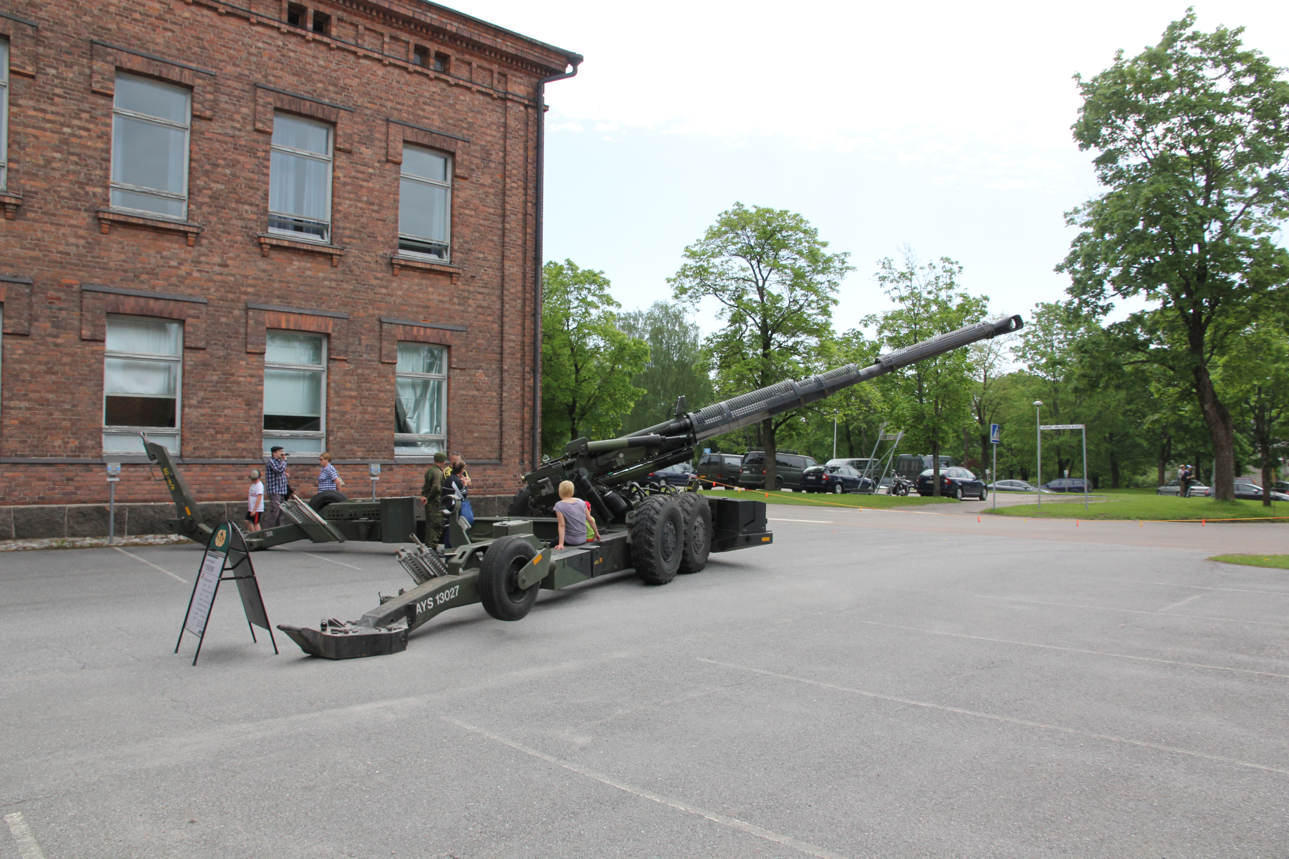 155 K 98 cannon on display during Finnish Defence Forces 2014 Flag day in Lappeenranta Rakuunanmäki.